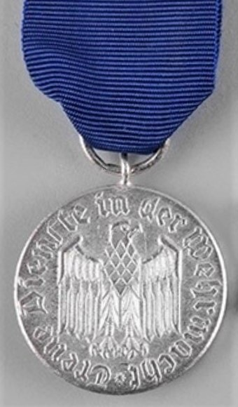 Wehrmacht Long Service Medal for 4 years service. Obverse. Post war de-nazified version, 1957.